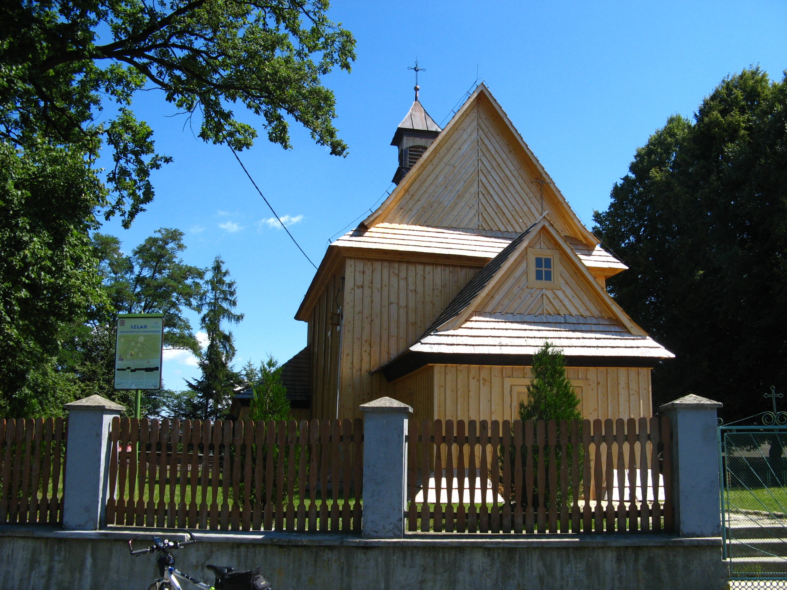 Roman Catholic church of the Revelation of Christ (The Three Kings) from 1754.